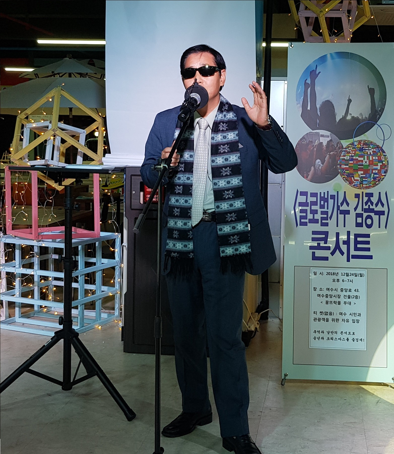 Singer Kim Jong Soo's year 2018 Christmas concert scene